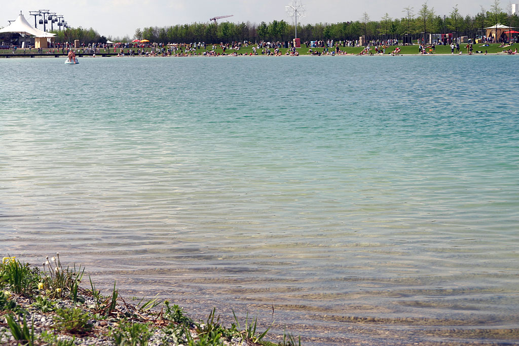 Bundesgartenschau 2005 in Munich, Bavaria: Lake Riem.